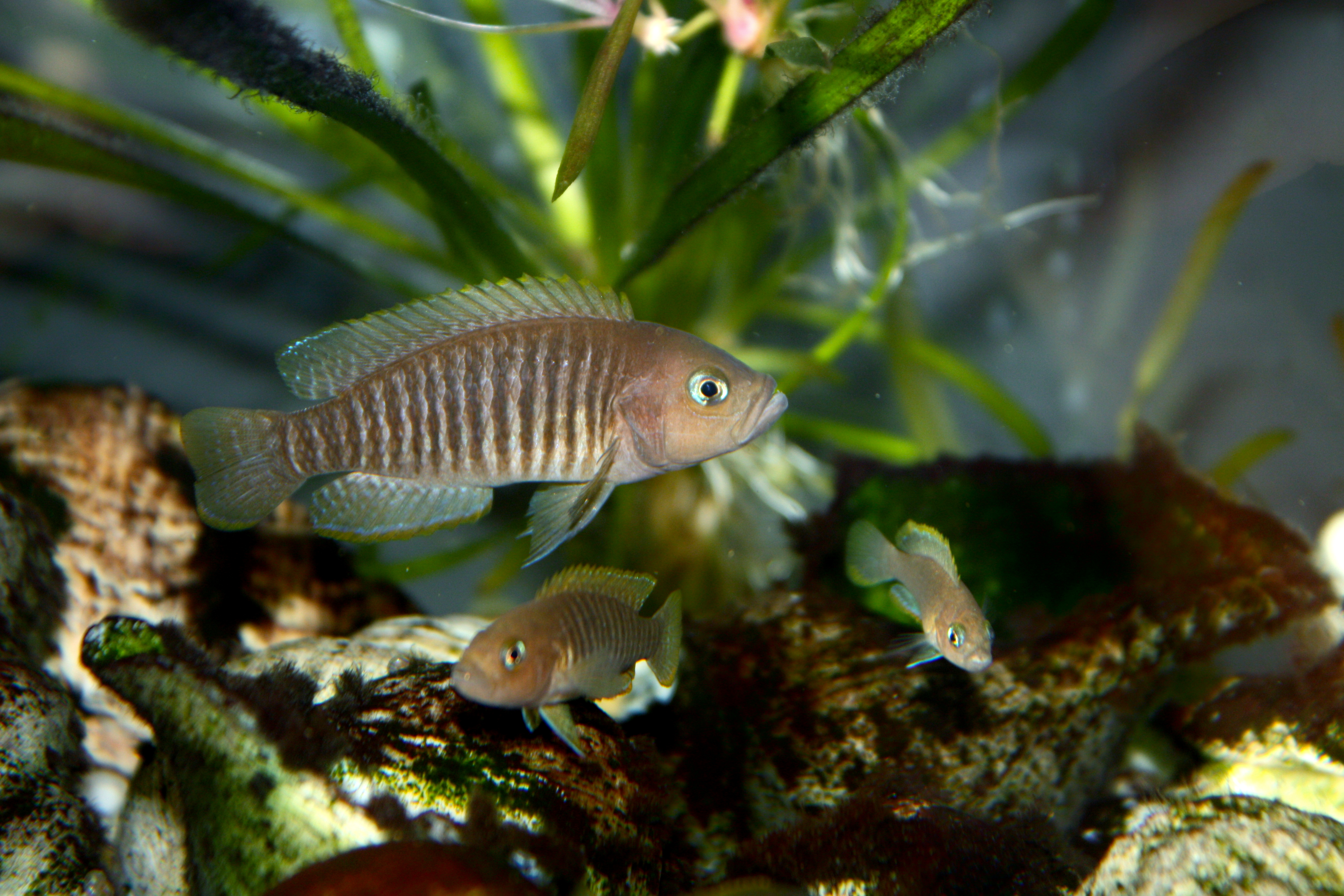 A Neolamprologus multifasciatus male guarding its territory.